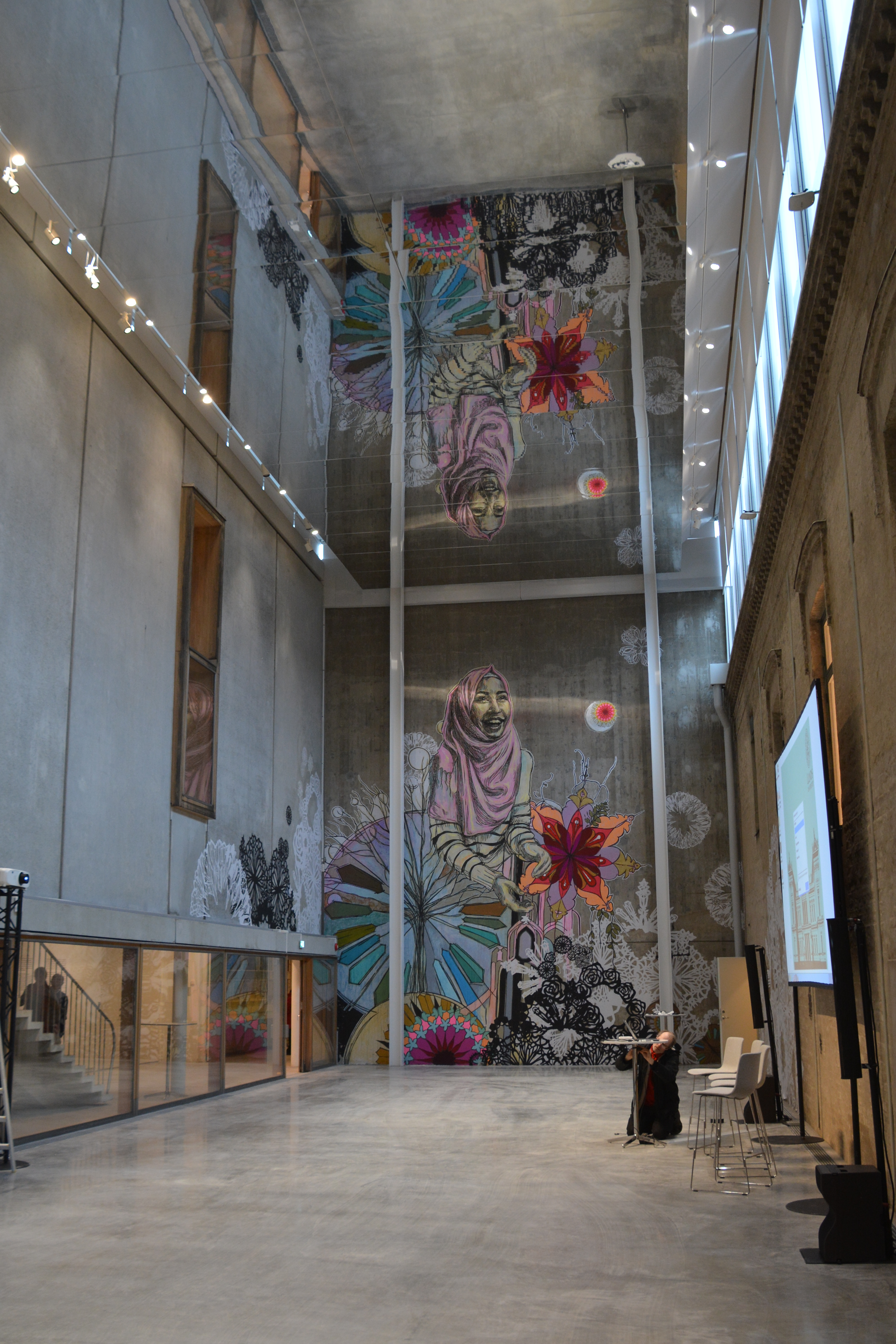 Birgit Rausings sal, Skissernas museum